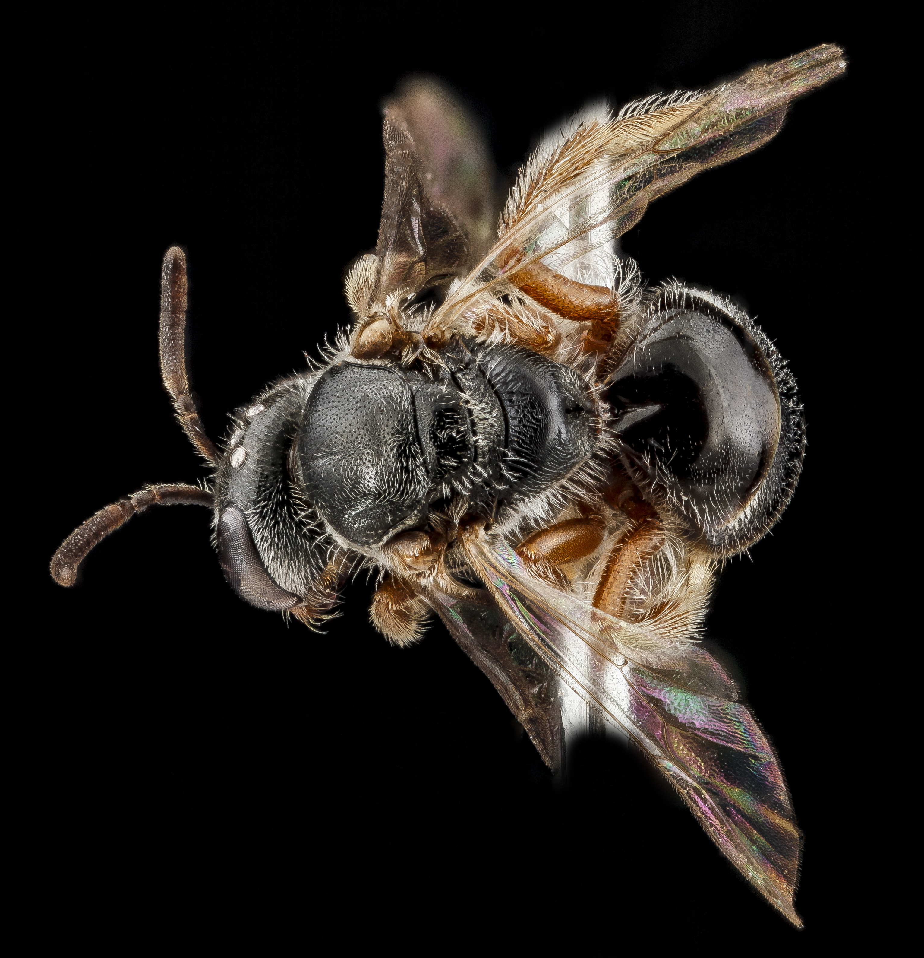 Lasioglossum birkmani, Big Thicket National Preserve